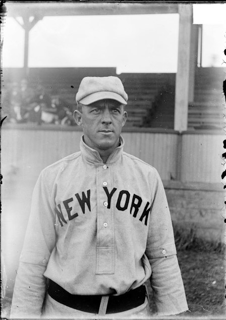 [Baseball player, Billy Gilbert, New York Giants, standing on a baseball field near the grandstand]. Chicago Daily News, Inc., photographer. CREATED/PUBLISHED 1903. SUMMARY Half-length portrait of Billy (William Oliver) Gilbert, second baseman for the New York Giants National League baseball team, standing on a baseball field, in front of the grandstand at West Side Grounds, which was located between West Polk Street, South Wolcott Avenue (formerly Lincoln Street), West Taylor Street, and South Wood Street, in the Near West Side community area of Chicago, Illinois. NOTES This photonegative taken by a Chicago Daily News photographer may have been published in the newspaper. Cite as: SDN-001468, Chicago Daily News negatives collection, Chicago History Museum. SUBJECTS Gilbert, William Oliver. New York Giants (Baseball team) National League of Professional Baseball Clubs West Side Grounds (Chicago, Ill.) Baseball players--Illinois--Chicago--1900-1909. Near West Side (Chicago, Ill.)--1900-1909. Chicago (Ill.)--1900-1909. Portraits. Dry plate negatives. Gelatin dry plate negatives. United States--Illinois--Cook County--Chicago. MEDIUM 1 negative : b&w, glass ; 5 x 7 in. REPRODUCTION NUMBER SDN-001468 REPOSITORY Chicago History Museum, 1601 North Clark Street, Chicago, IL 60614-6038. DIGITAL ID (original negative) ichicdn s001468